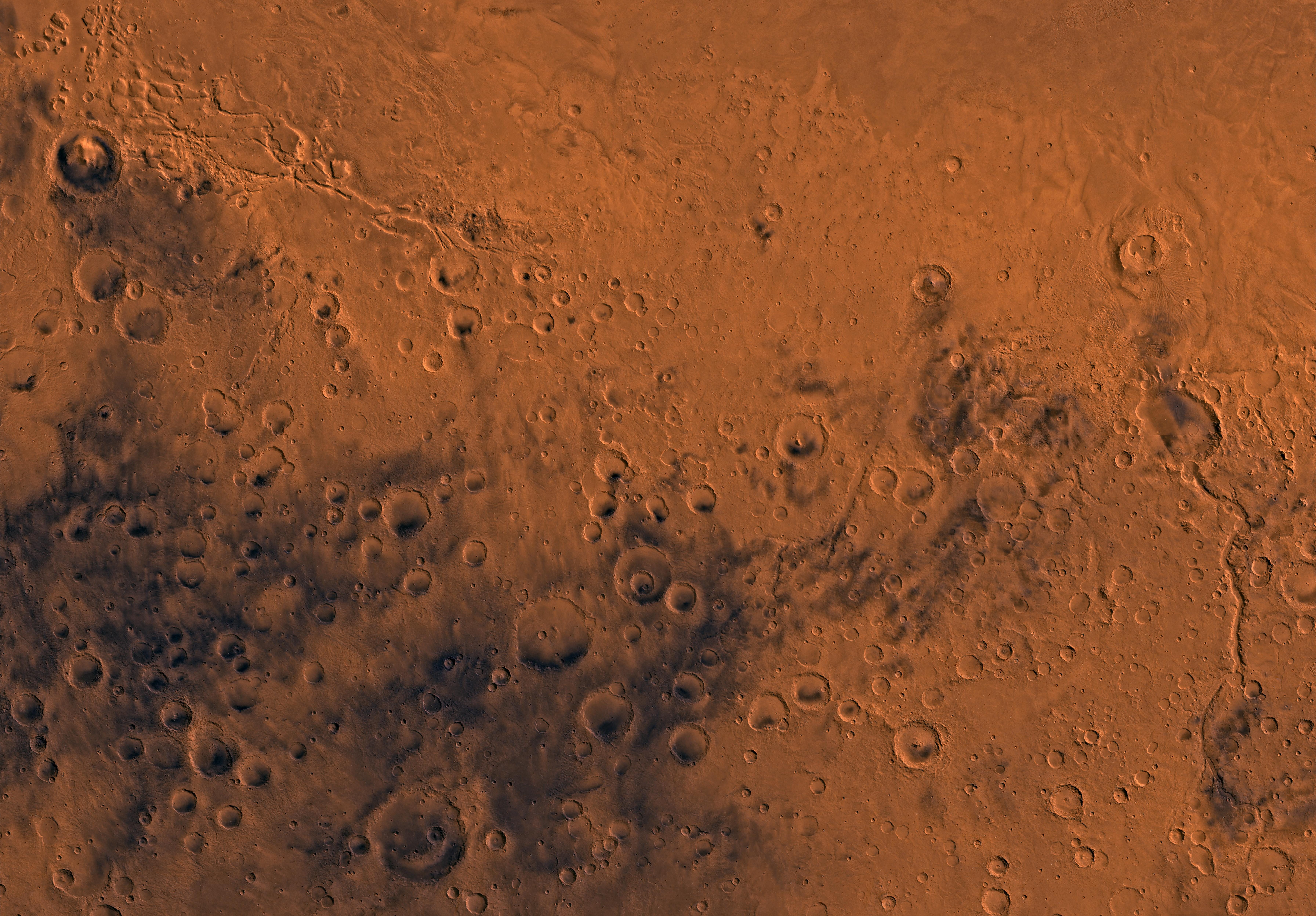 PIA00183: MC-23 Aeolis Region Mars digital-image mosaic merged with color of the MC-23 quadrangle, Aeolis region of Mars. The southern part is dominated by heavily cratered highlands that are cut by two large channels having features characteristic of terrestrial river beds. The highlands are separated from the northern plains of Elysium Planitia by a highly dissected, discontinuous northwest trending scarp. The northeastern part is marked by a large shield volcano, Apollinaris Patera. Latitude range - 30 to 0 degrees, longitude range -180 to -135 degrees.